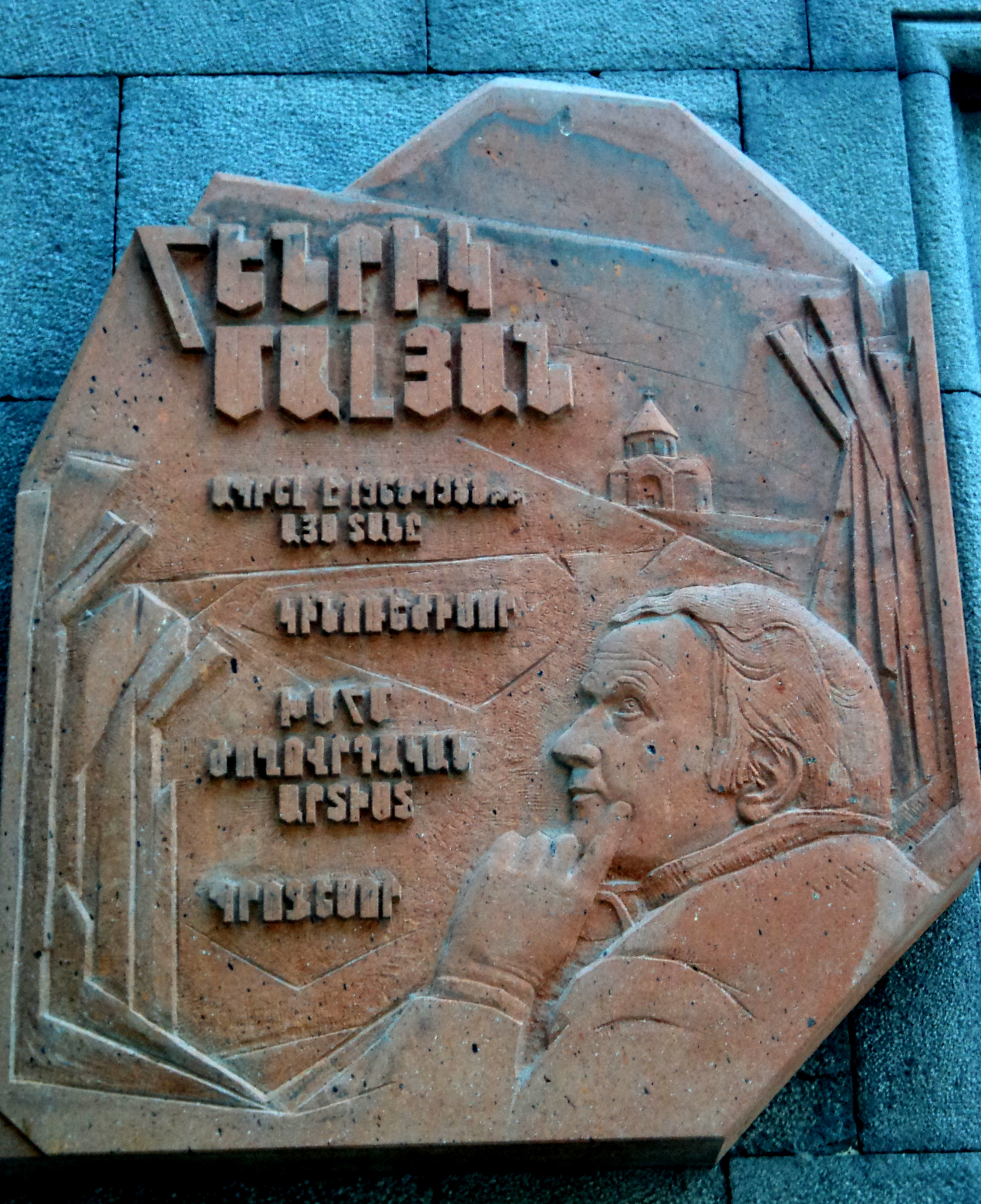 Henrik Malyan's Plaque on Mashtots Avenue, Yerevan